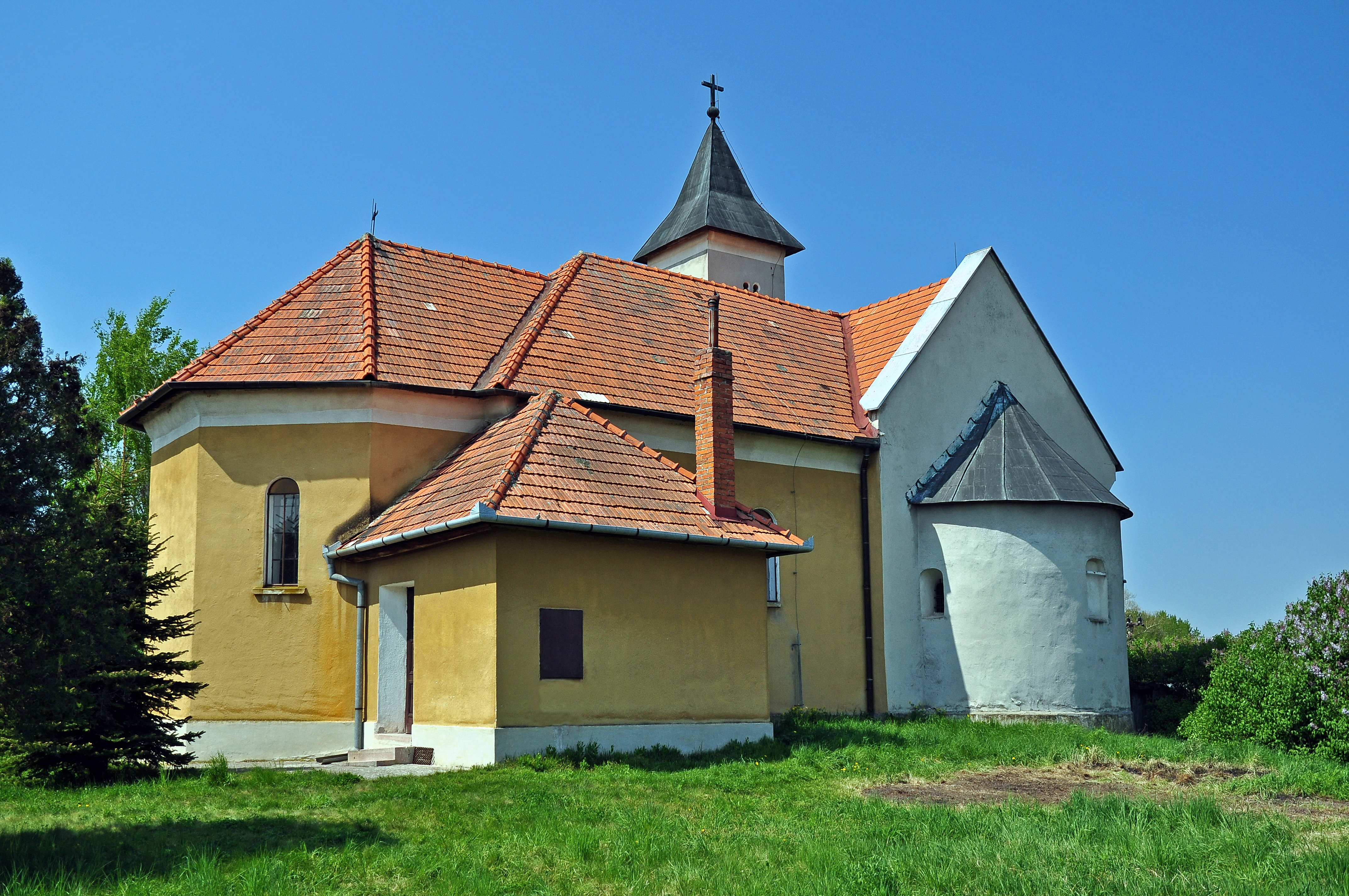 This medium shows the protected monument with the number 402-1608/0 in the Slovak Republic.